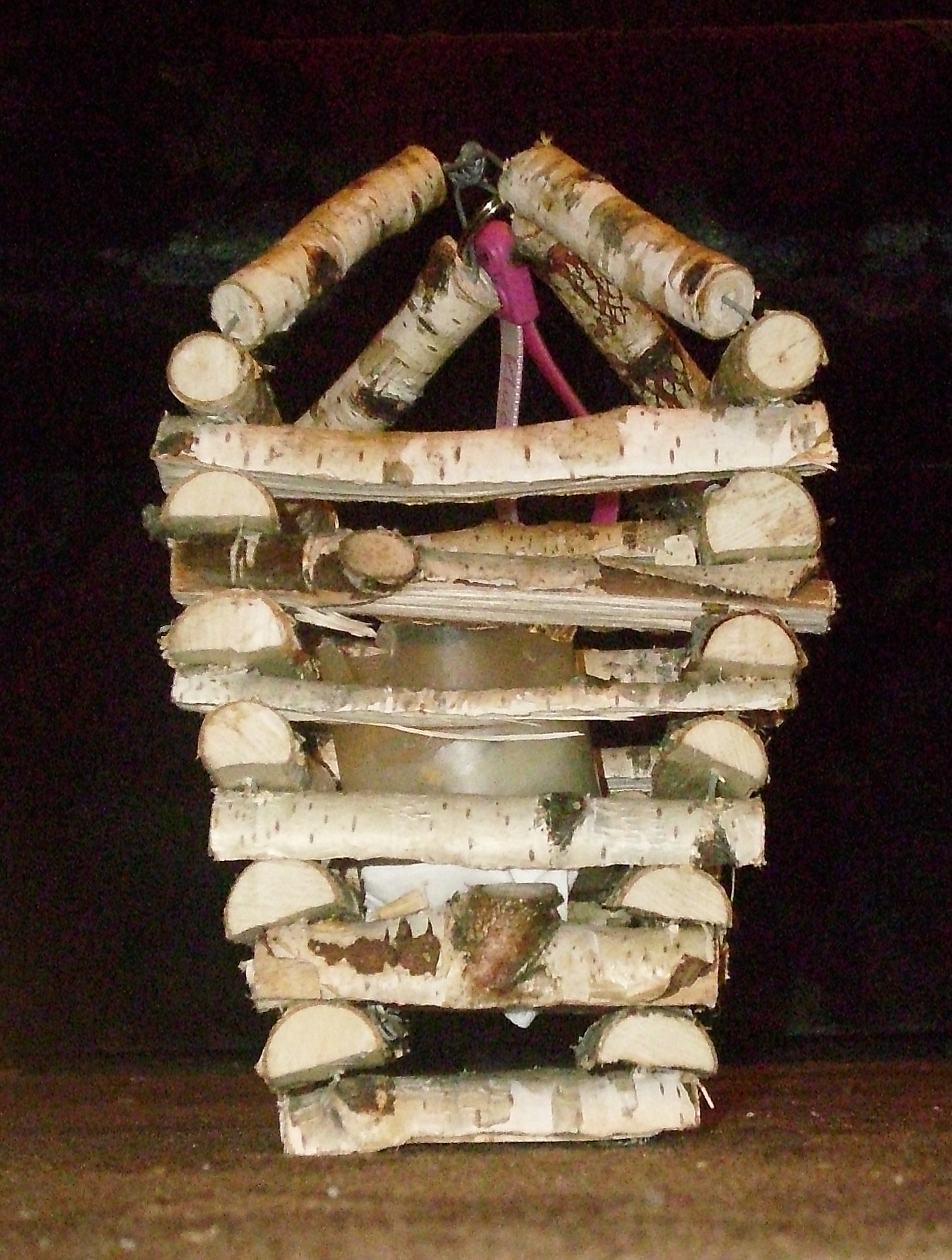 The picture of the candle fired in church during morning mess in Advent. In Poland this mass is called Rezurekcja. This candle in made by child from village Sluzewo in Kujavian cauntry.